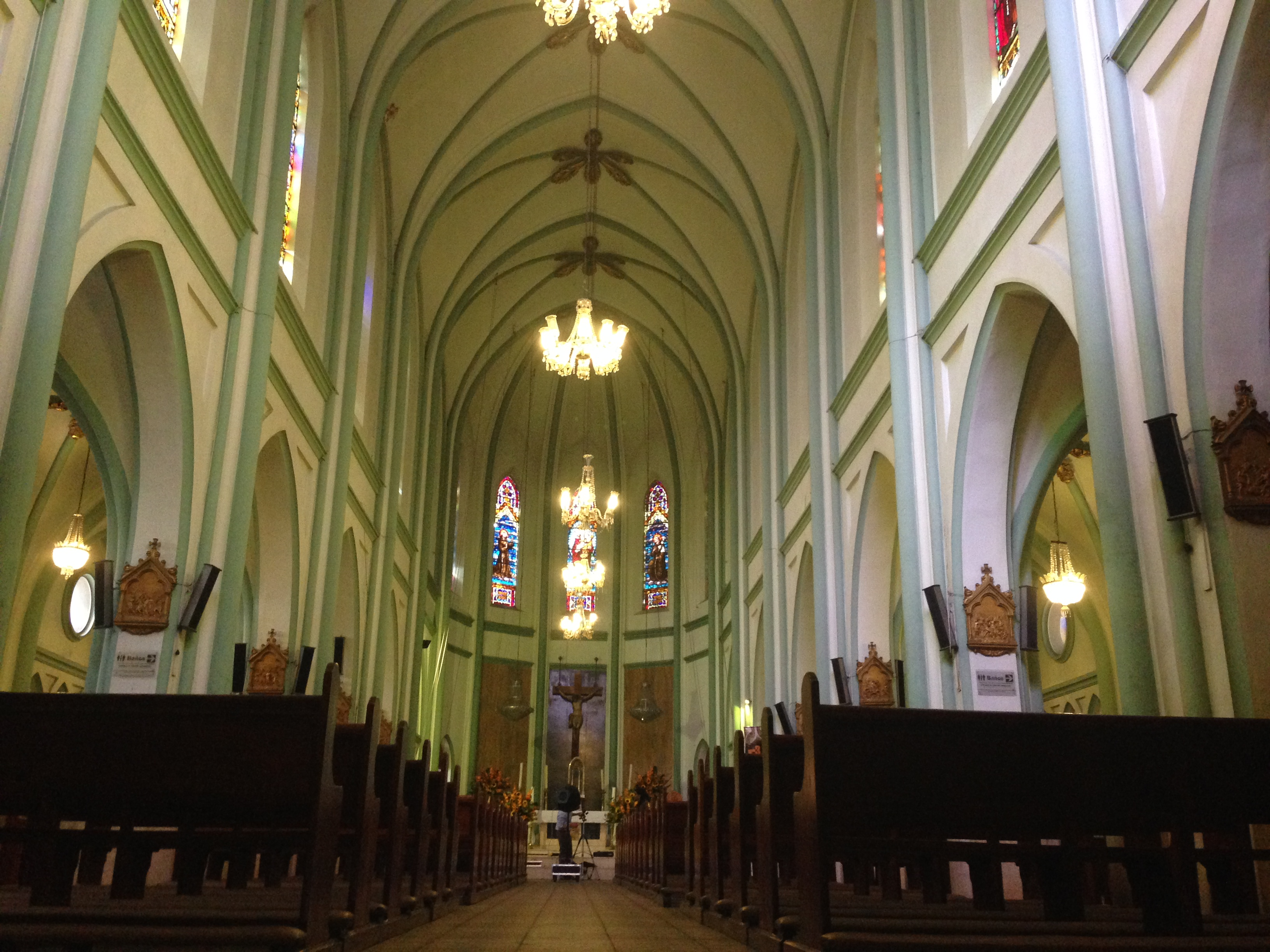 Inside Porciuncula Church, Bogotá Colombia